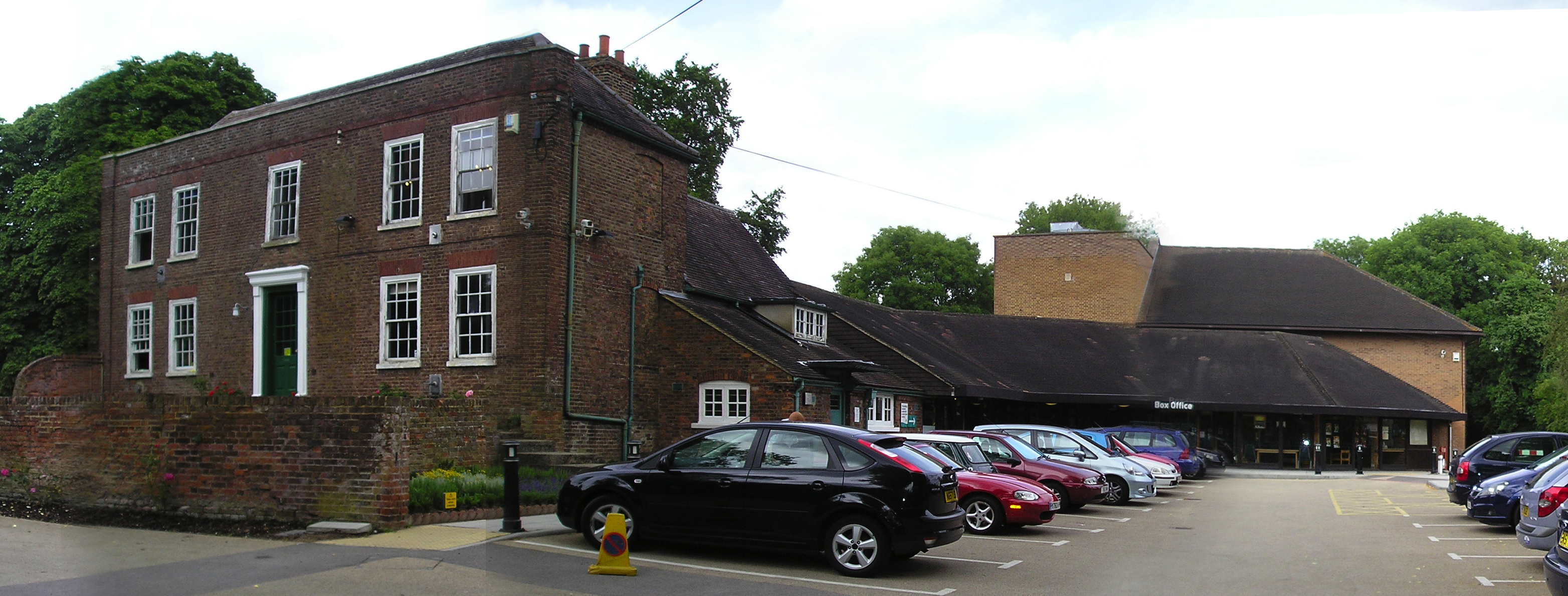 The Compass Theatre and Ickenham Hall in Ickenham in the London Borough of Hillingdon